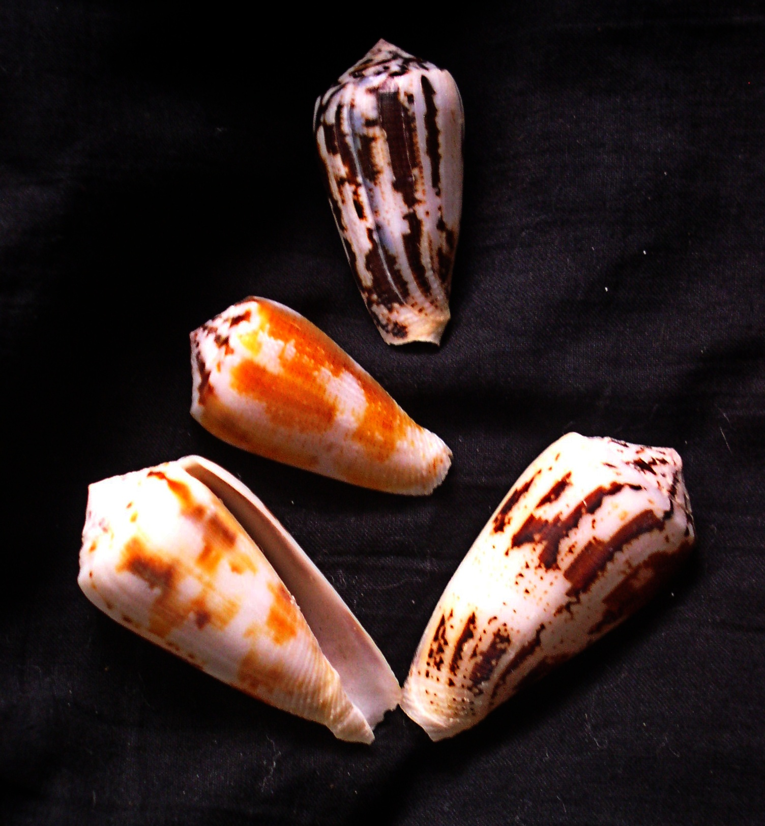 Magus Cone - Conus magus